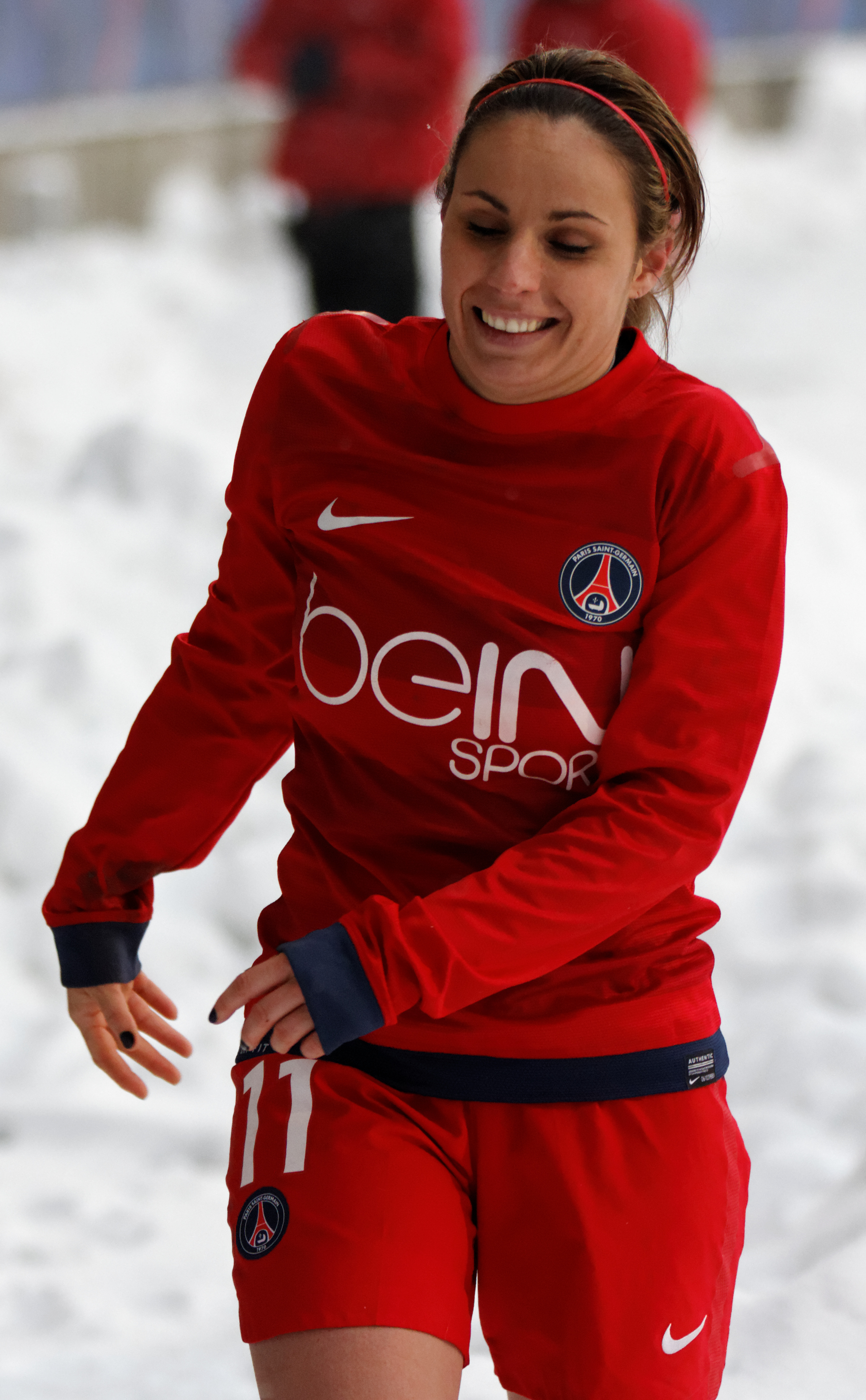 PSG-Toulouse, January 20th, 2013.